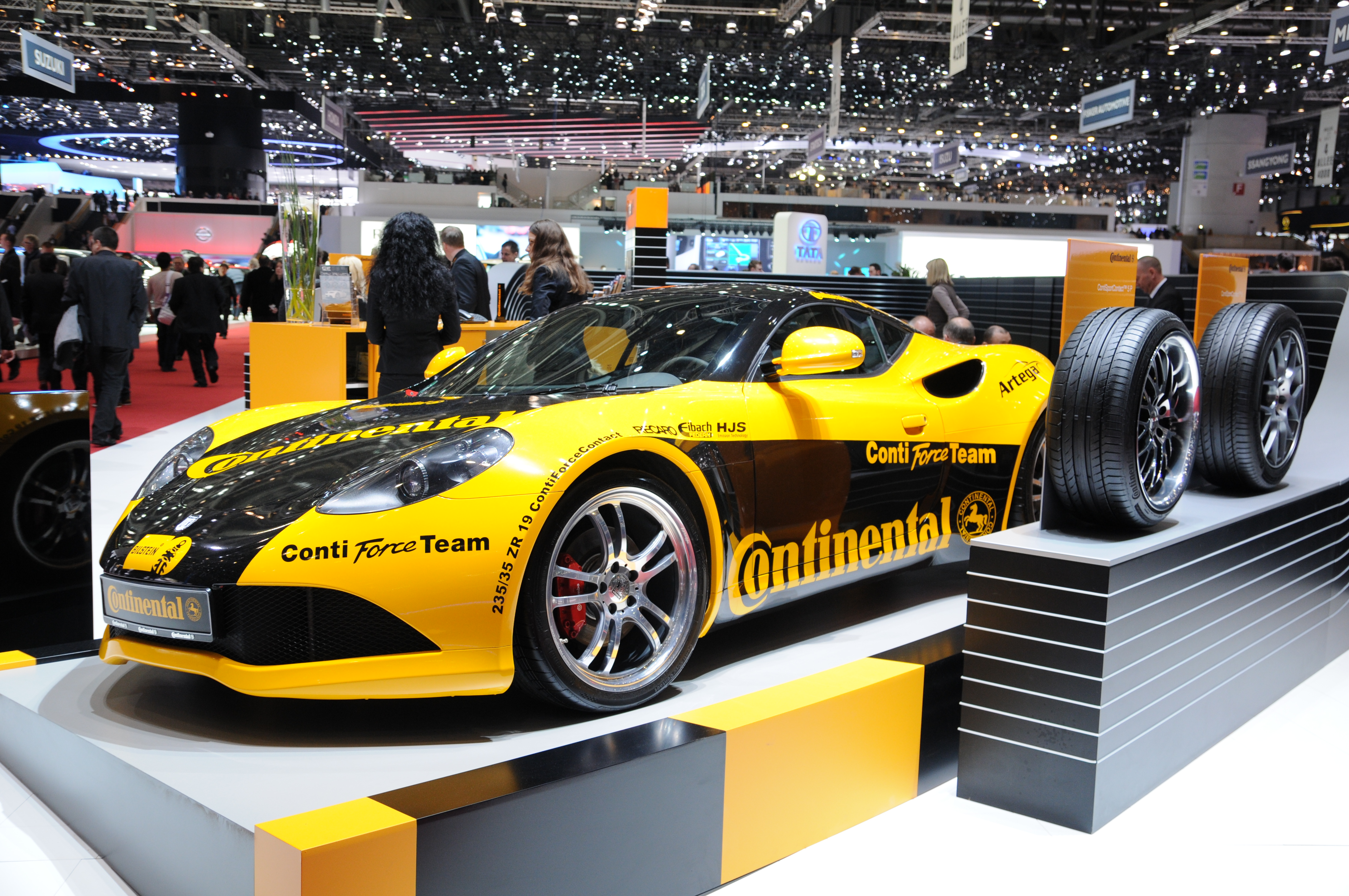 Geneva Motor Show 2012 (photos taken on the second press day)